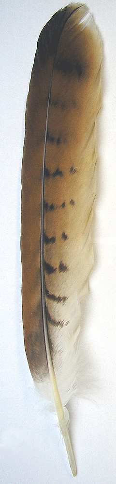 Tail-feather of a Red Kite (Milvus milvus) 325mm